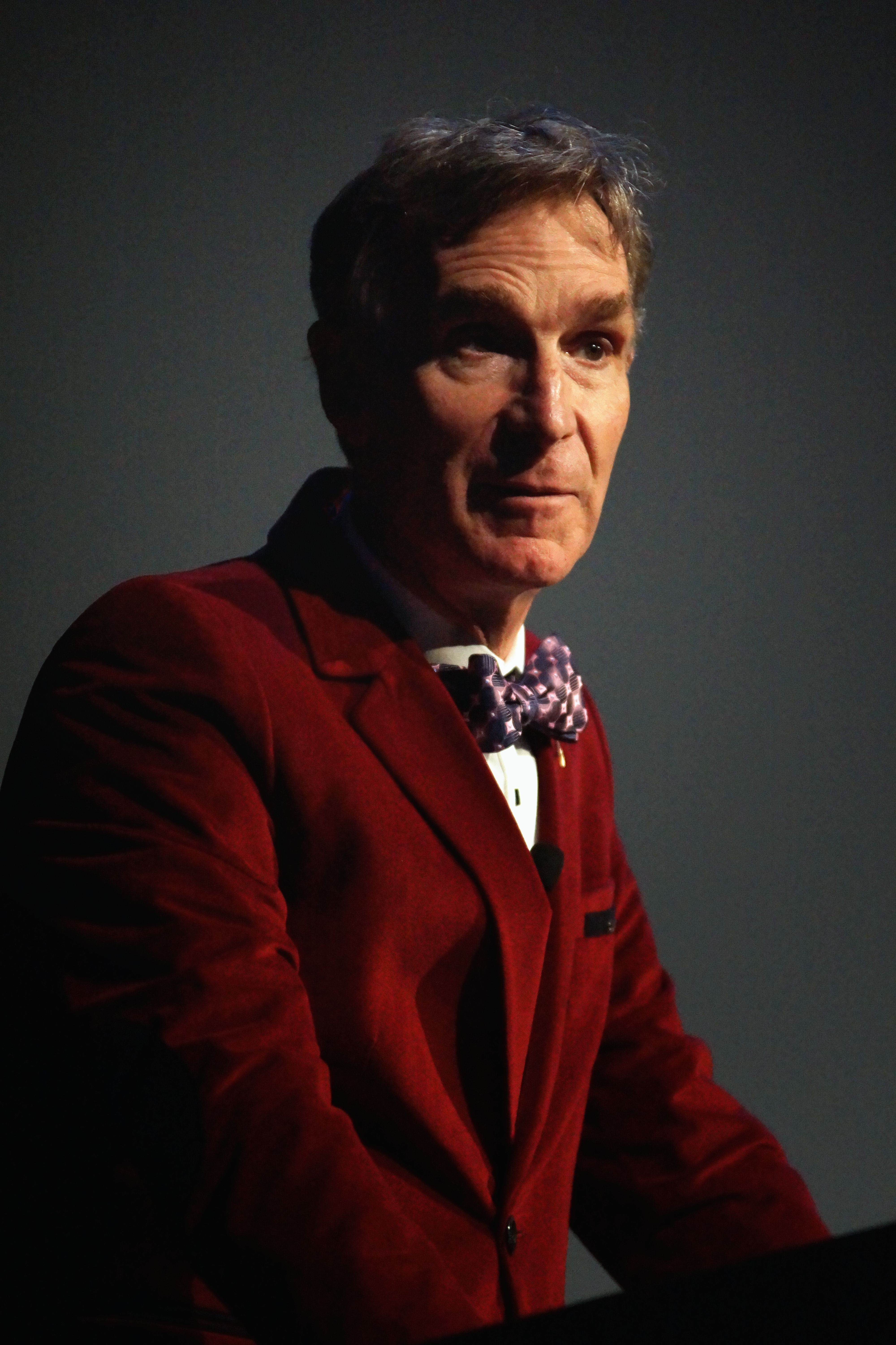 Bill Nye the Science Guy delivered the Keynote Address at NECSS 2015. Saturday, April 11, 2015. F.I.T. Haft Auditorium. New York City.